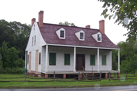 cocheron house, dutch influence, federal style house, staten island, ny